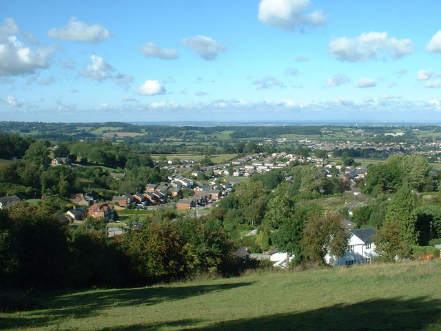 Looking down on Gwernymynydd. Looking north east, from the minor road running south from the A494, which gives splendid views of the area.